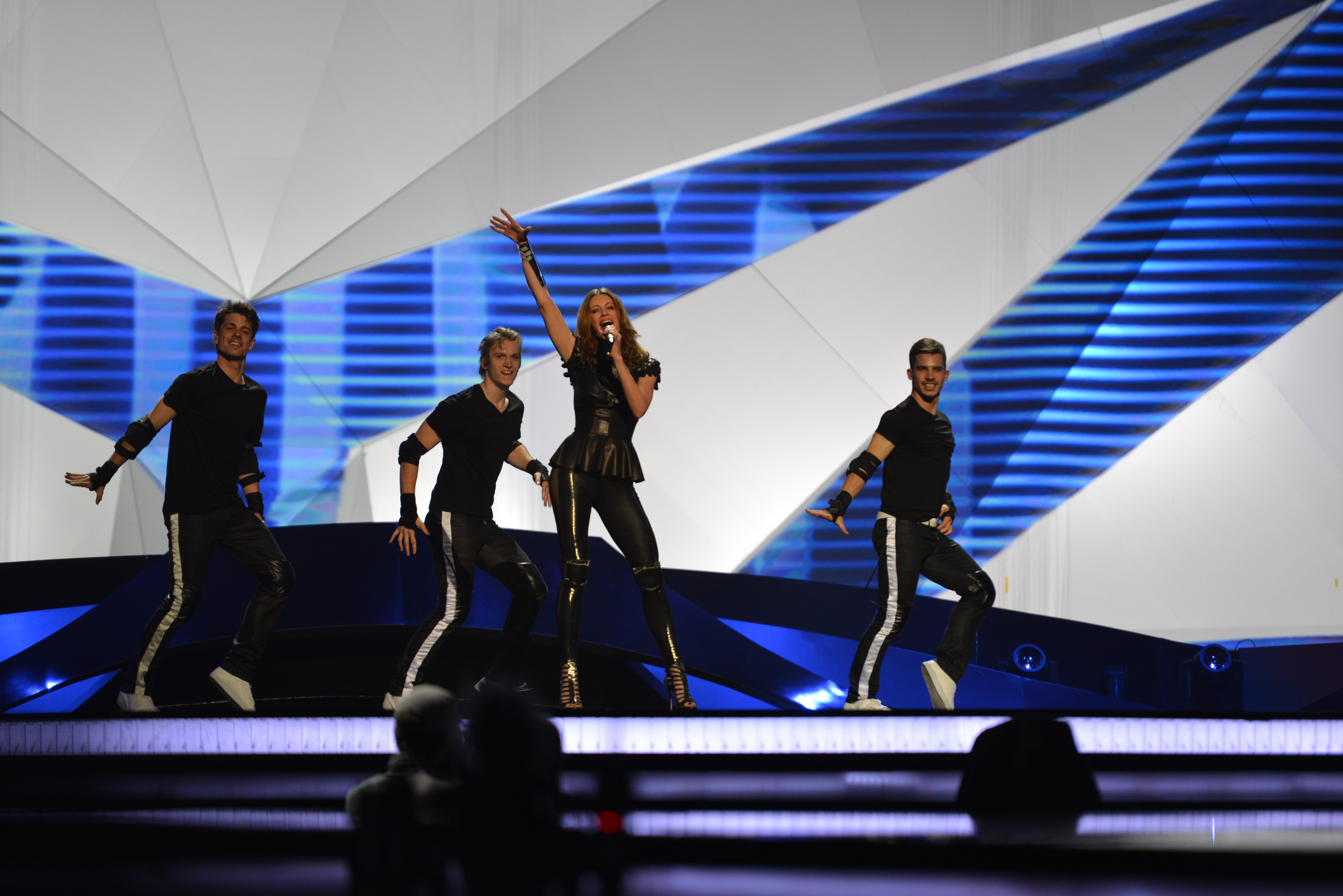 Hannah representing Slovenia with the song "Straight into Love" during the first dress rehearsal of the first semi final of the Eurovision Song Contest 2013 in Malmö. (Help translate this text)